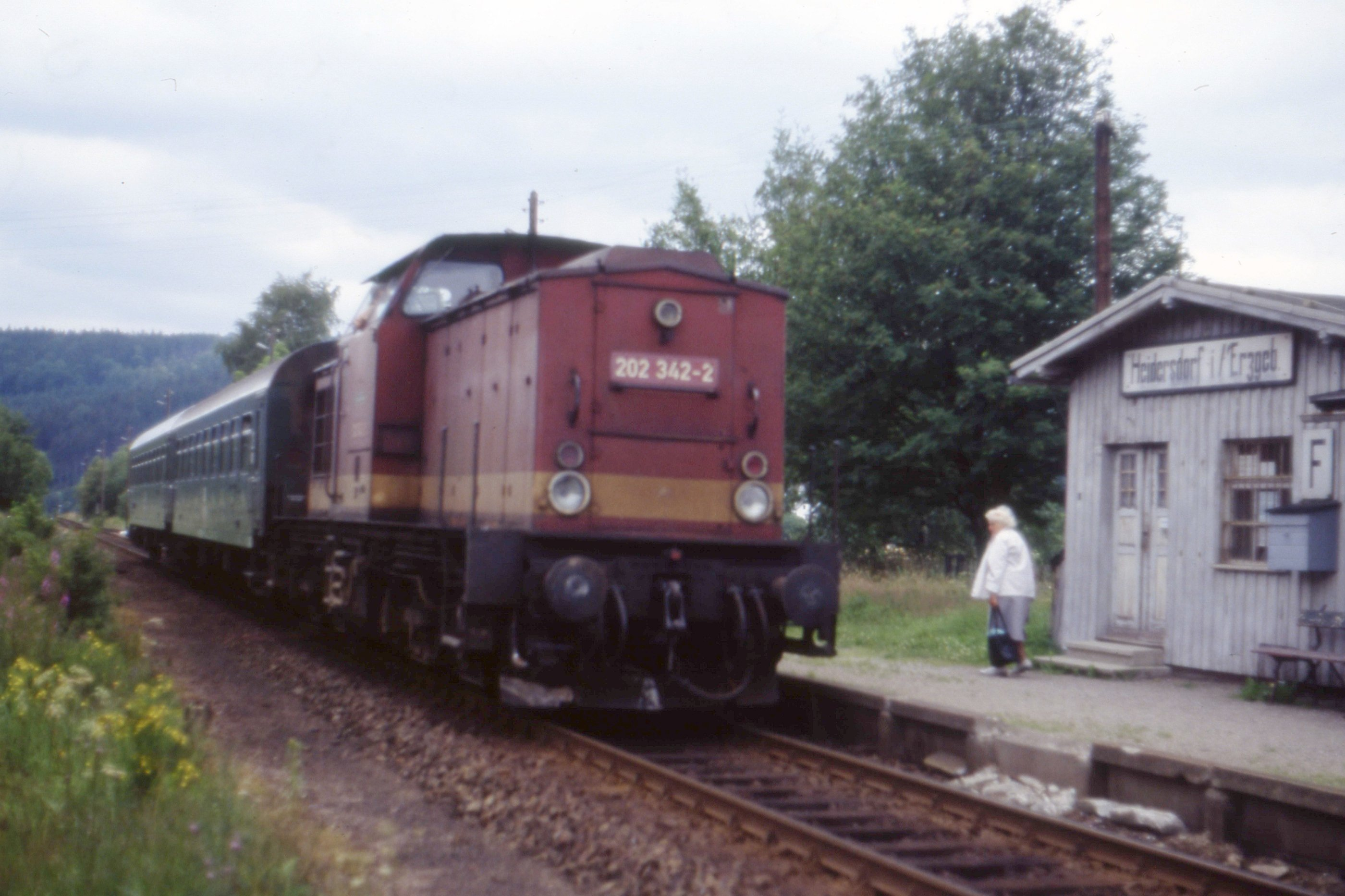 A single passenger emerges from the rudimentary station, no doubt manned in GDR times, to meet the 2 carriage personenzug to Neuhausen There had been a railway here since 1895. The other branch of the Flöhatal reaches Marienberg from Pockau-Lengeberg. In 1999, severe storms washed away numerous bridges and since then, rail replacement services using buses have been in operation beyond Olbernhau-Gruenthal. Here is a map of the Erzgebirgsbahn Currently (2009) the tourist department in Neuhausen is agitating for passenger services , abandoned since 2001, to be reintroduced. In addition, a sawmill in Deutscheinsiedel has bought a siding here in Heidersdorf for the eventual loading of timber if goods services are reintroduced.